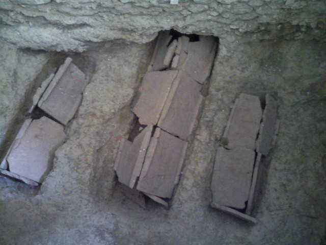 Celtic burials in Priamar, Savona, Italy (about 5th century BCE)